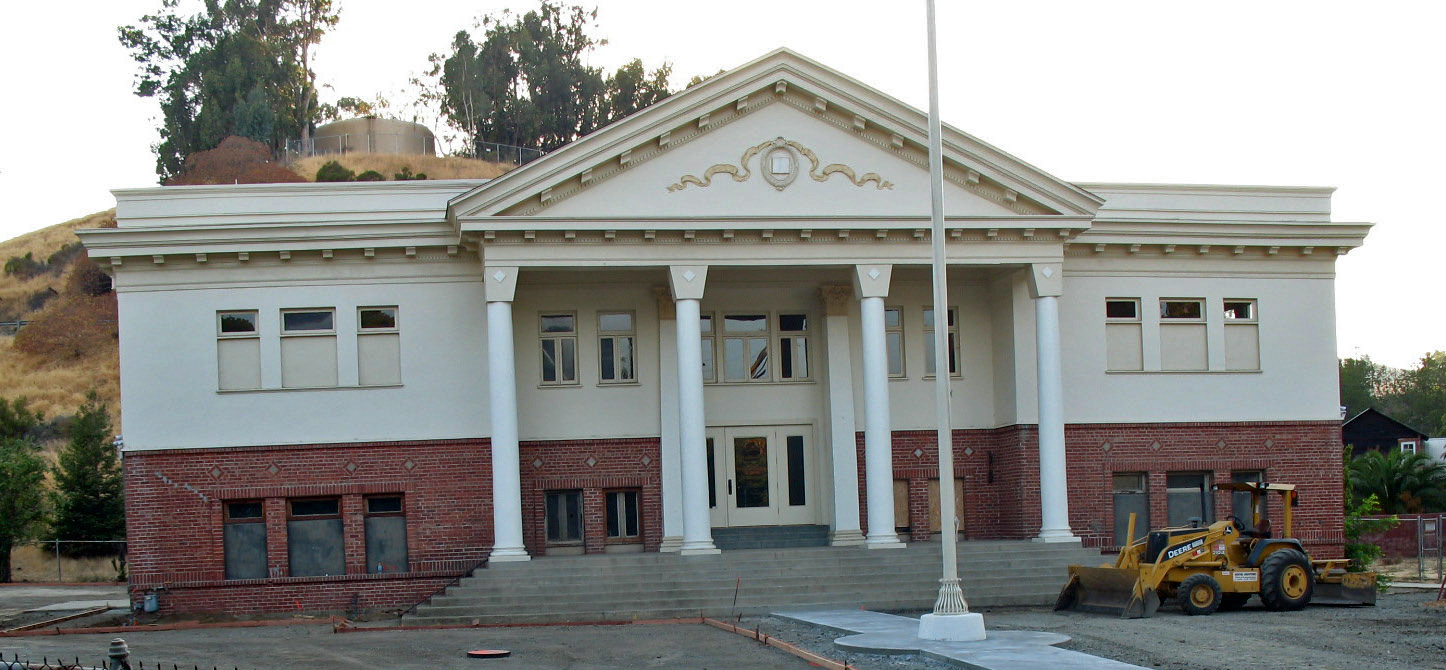 National Register of Historic Places listings in Contra Costa County, California. Port Costa School, Plaza El Hambre, Port Costa, California, USA. Photographed 2008-09-14 from the southwest corner of Reservoir St. and Canyon Lake Dr.